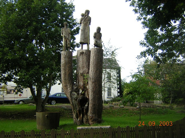 Tree Sculpture of The Potato Famine at Tannaghmore Gardens. This sculpture was carved out of three parts of this tree and depicts The Potato Famine in Ireland and it can be found in Tannaghmore Gardens a few miles from Lurgan.